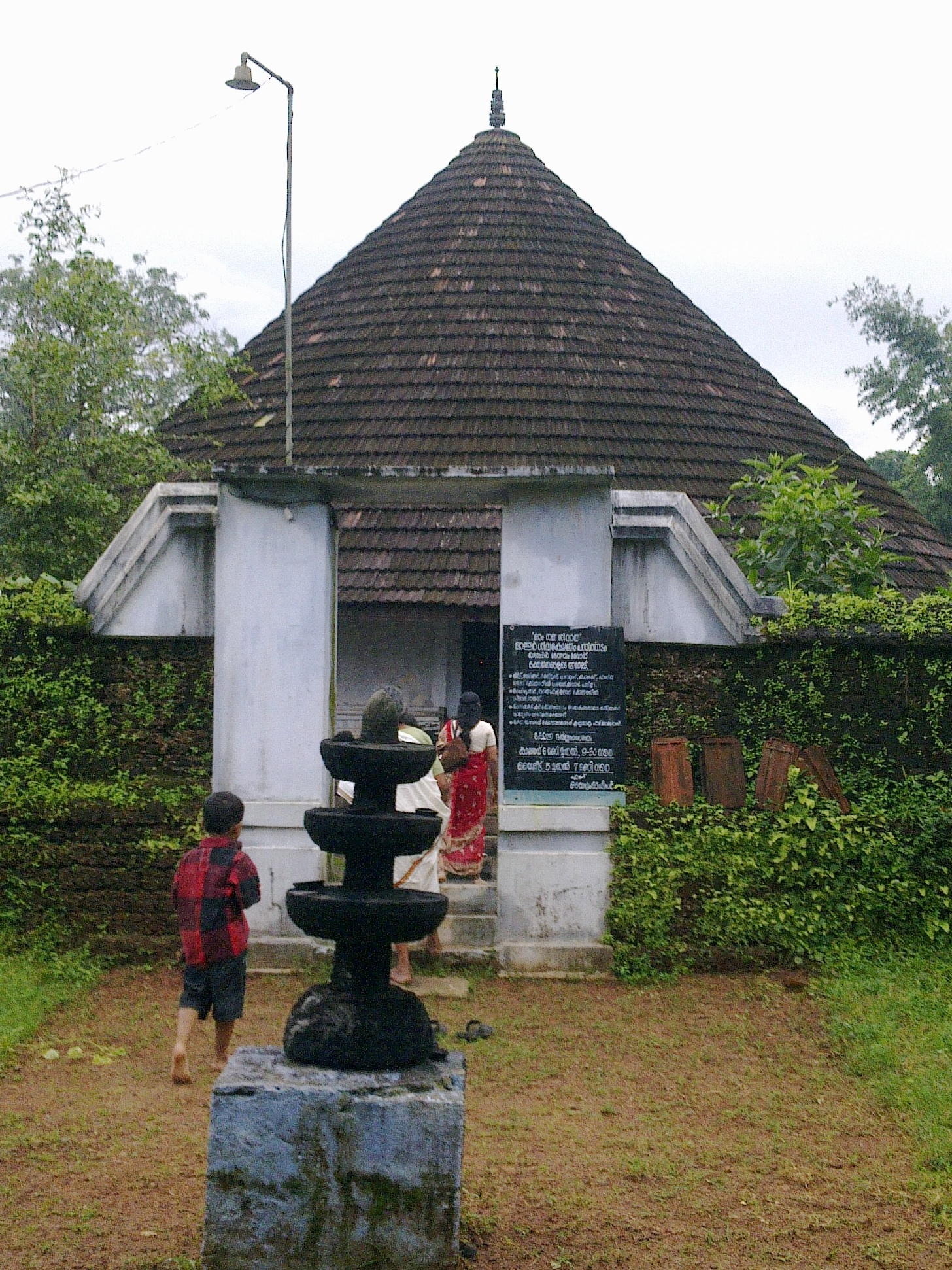 Pannithadam Mathoor Siva Temple